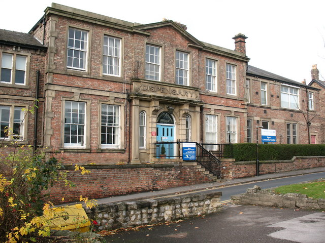 Ripon Community Hospital The hospital is situated on Firby Lane to the west of the city centre. The 1856 map shows the 'Dispensary' on this site, so one must presume that the hospital is over 150 years old. The 1:50000 map shows the building in SE3071, but the 1:25000 map shows at least half the building [including the frontage] in SE3171.